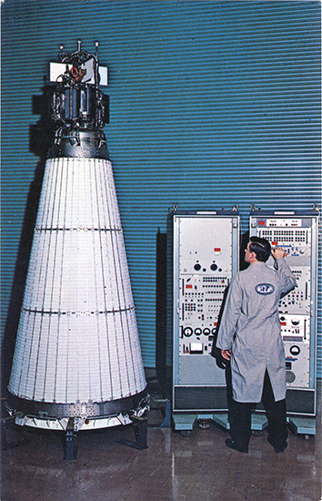 The world's first nuclear reactor power plant to operate in space, SNAP 10A, was launched into Earth orbit on April 3, 1965.